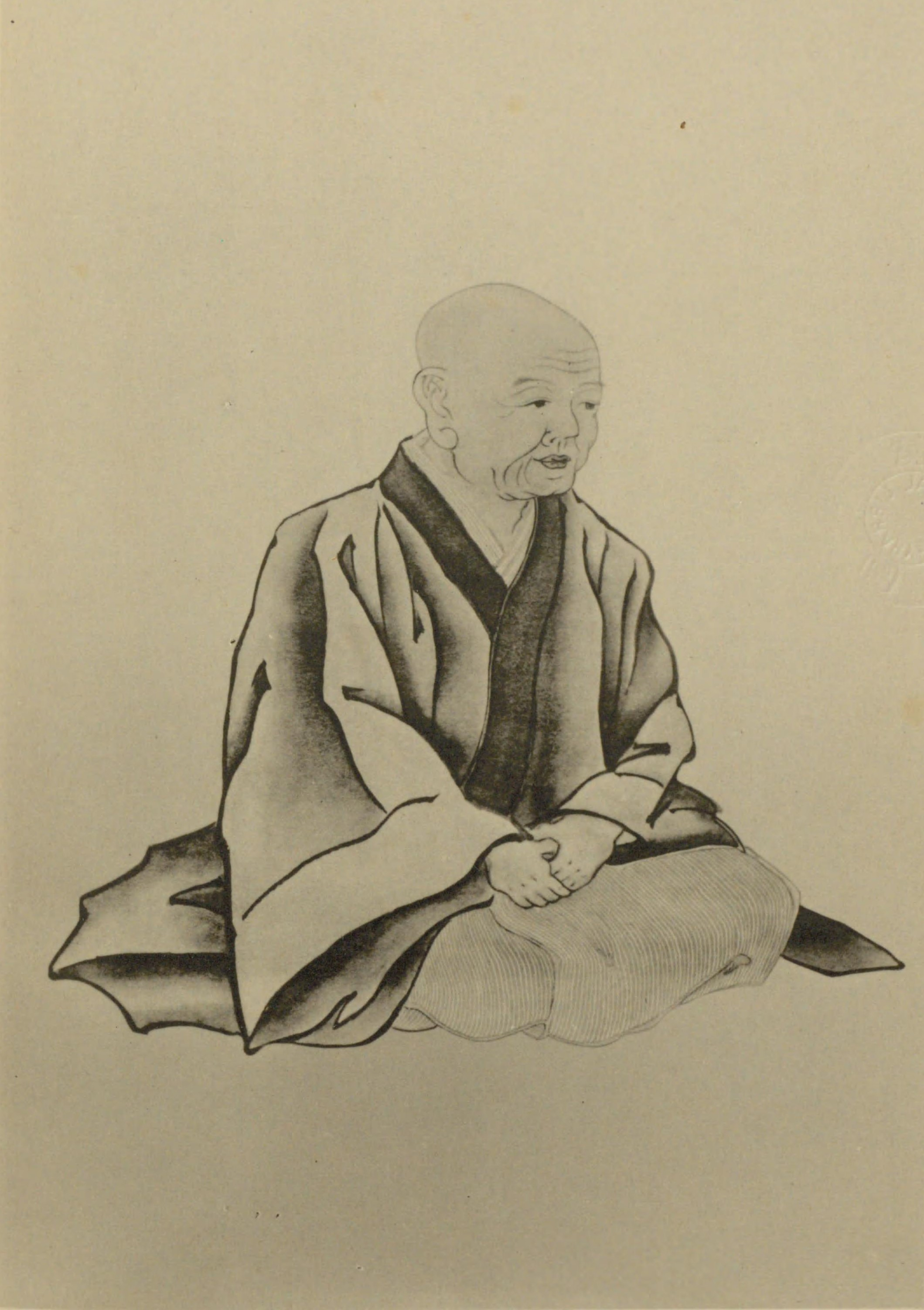 Portrait of Koishi Genzui